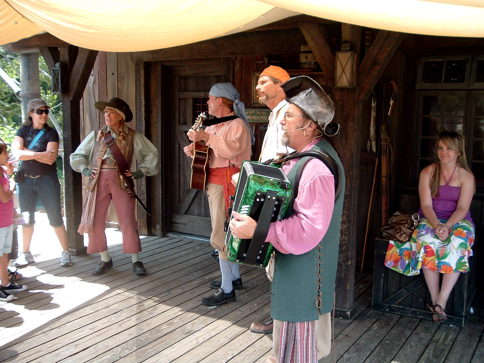 One of the bands that plays on Pirate's Lair at Disneyland